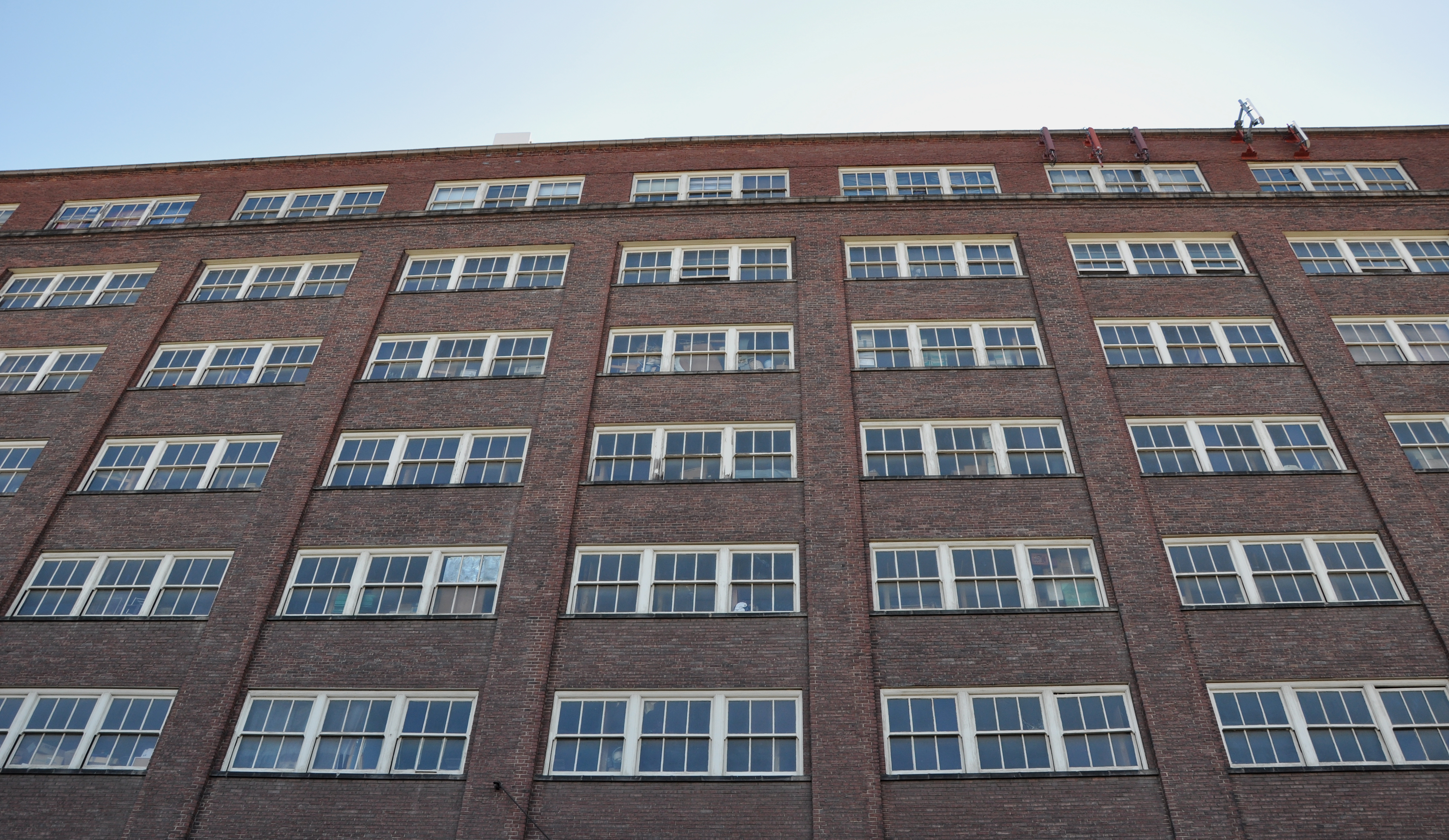 Top six floors of the west face of the John Deere Plow Company Building in Portland in the U.S. state of Oregon. The structure is listed on the National Register of Historic Places.